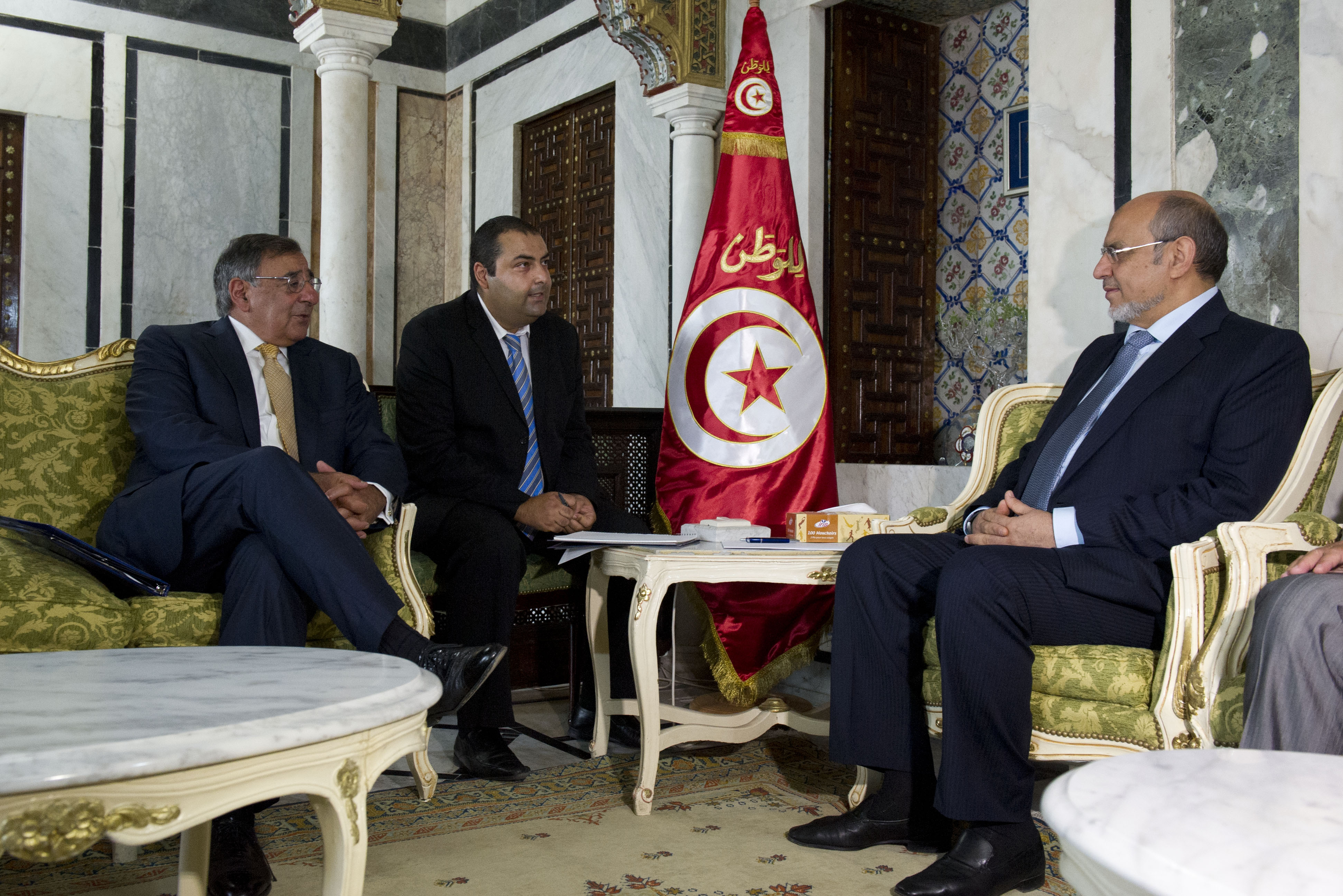 Secretary of Defense Leon E. Panetta, left, meets with Tunisian Prime Minister Hamadi Jebali, right, in Tunis, Tunisia, on July 29, 2012. Panetta is on a 5-day trip to the region, stopping in Tunisia, Egypt, Israel and Jordan to meet with senior leaders and counterparts.